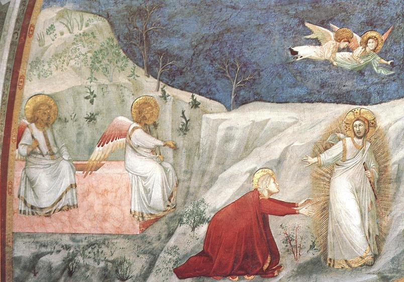 Noli me tangere. Fresco in Lower Basilica in Assisi